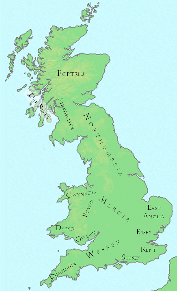 This map shows kingdoms in the island of Great Britain at about the year 800.